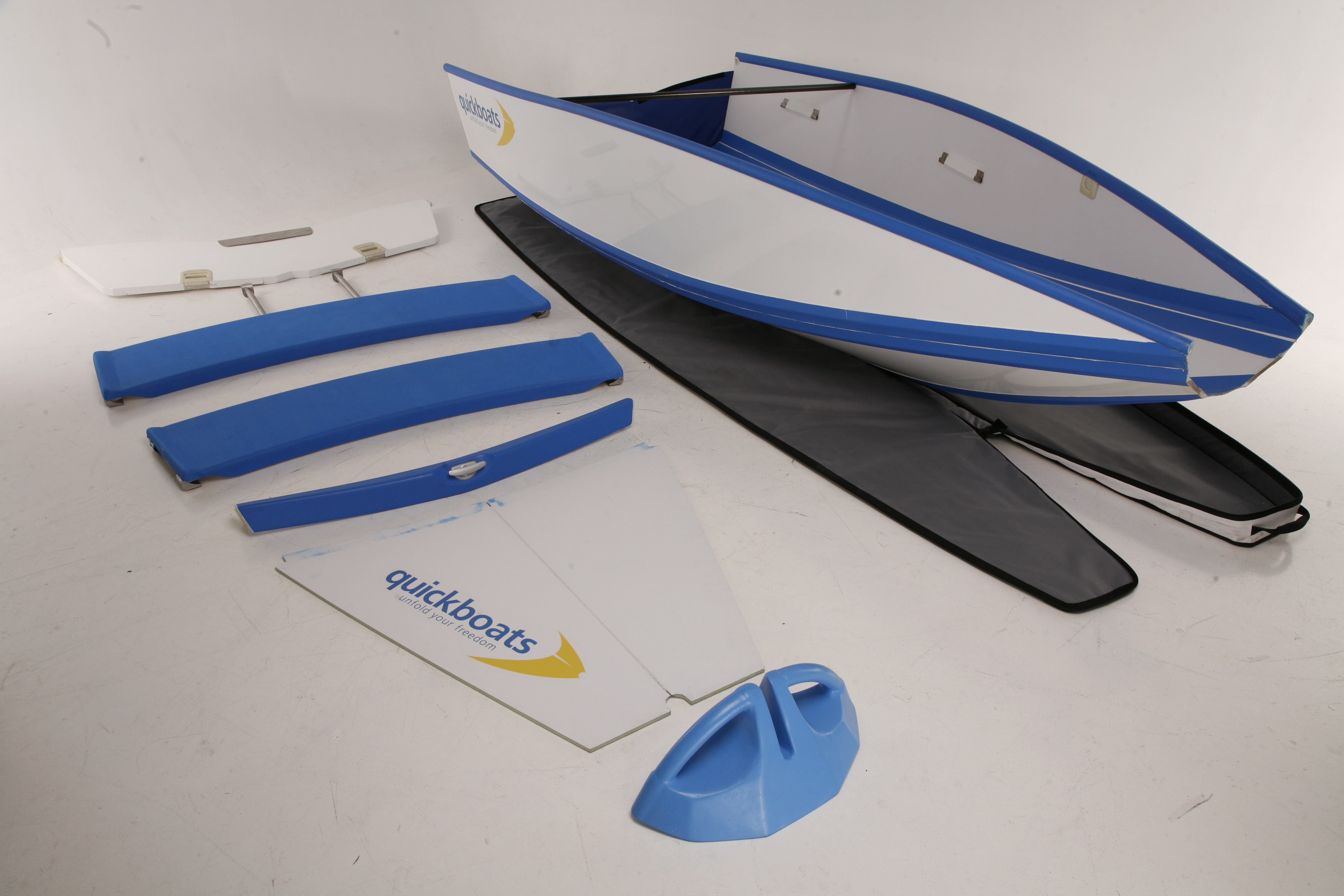 A folding boat being unfolded in a few easy steps, a process that can take less than 60 seconds